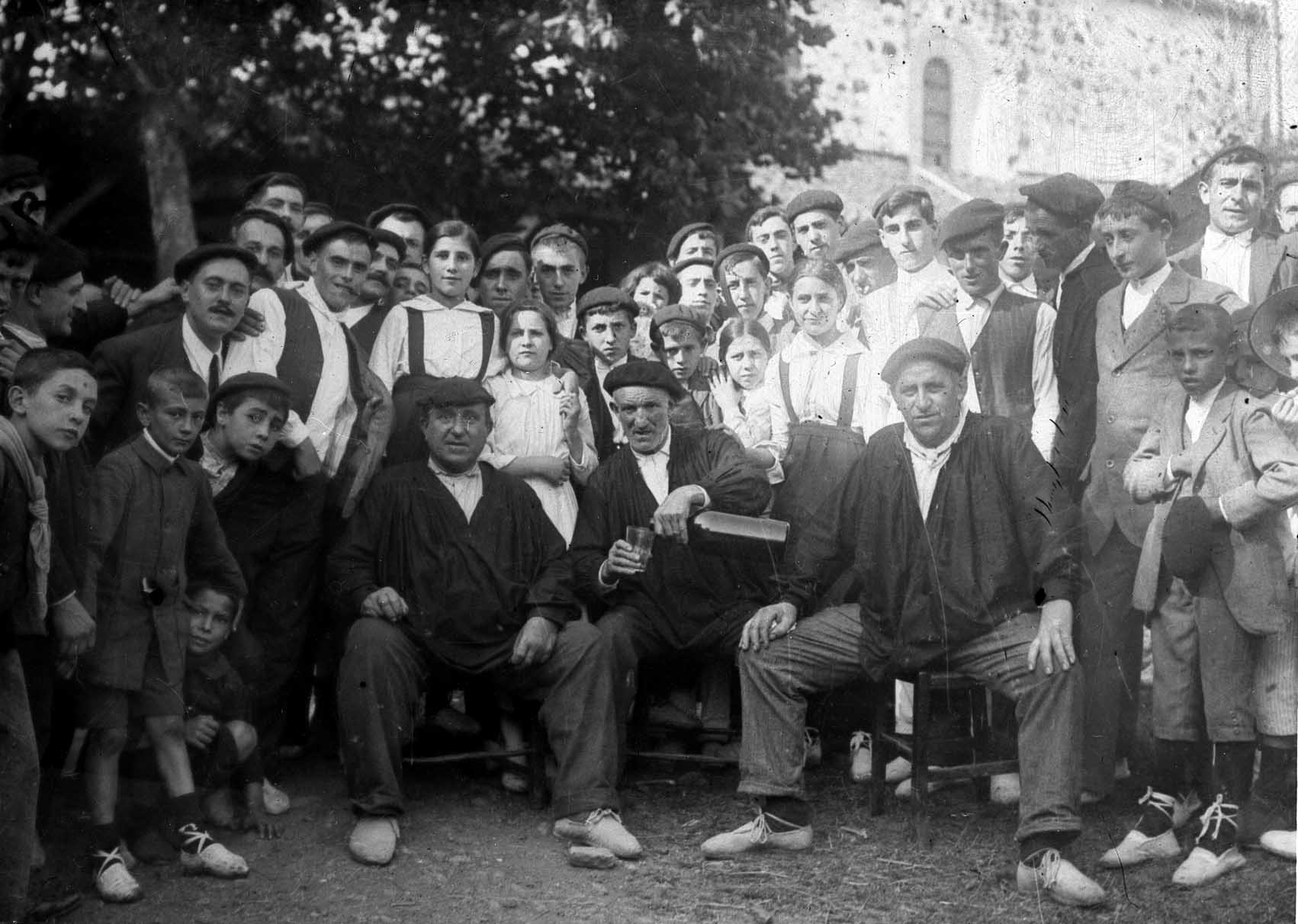 Basque bertsolaris (singers of extemporary composed songs called bertsoak): Jose Manuel Lujanbio "Txirrita", Olegario and Juan Bautista Urkia "Gaztelu" in Arrate, Eibar. Gipuzkoa, Basque Autonomlous Community.